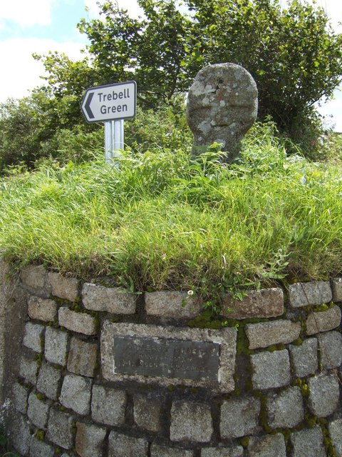 Reperry Cross The stone is in fact a replica commissioned and placed here by Sir Robert Edgecumbe, around 1805. See